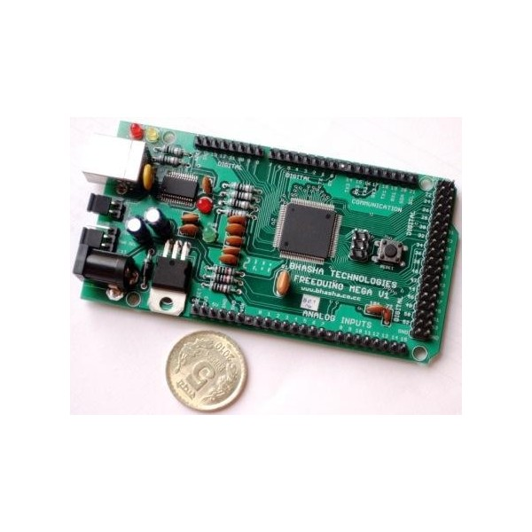 Freeduino USB Mega 2560, designed in India with Male headers (coming soon with Female Headers). Suitable for use in project, R&D, device and applications